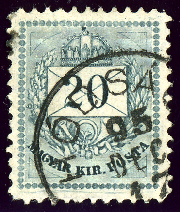 Kingdom of Hungary 20 kr stamp, issue 1881, cancelled HODSAGH in 1895, Temes Banat District (Serbia)